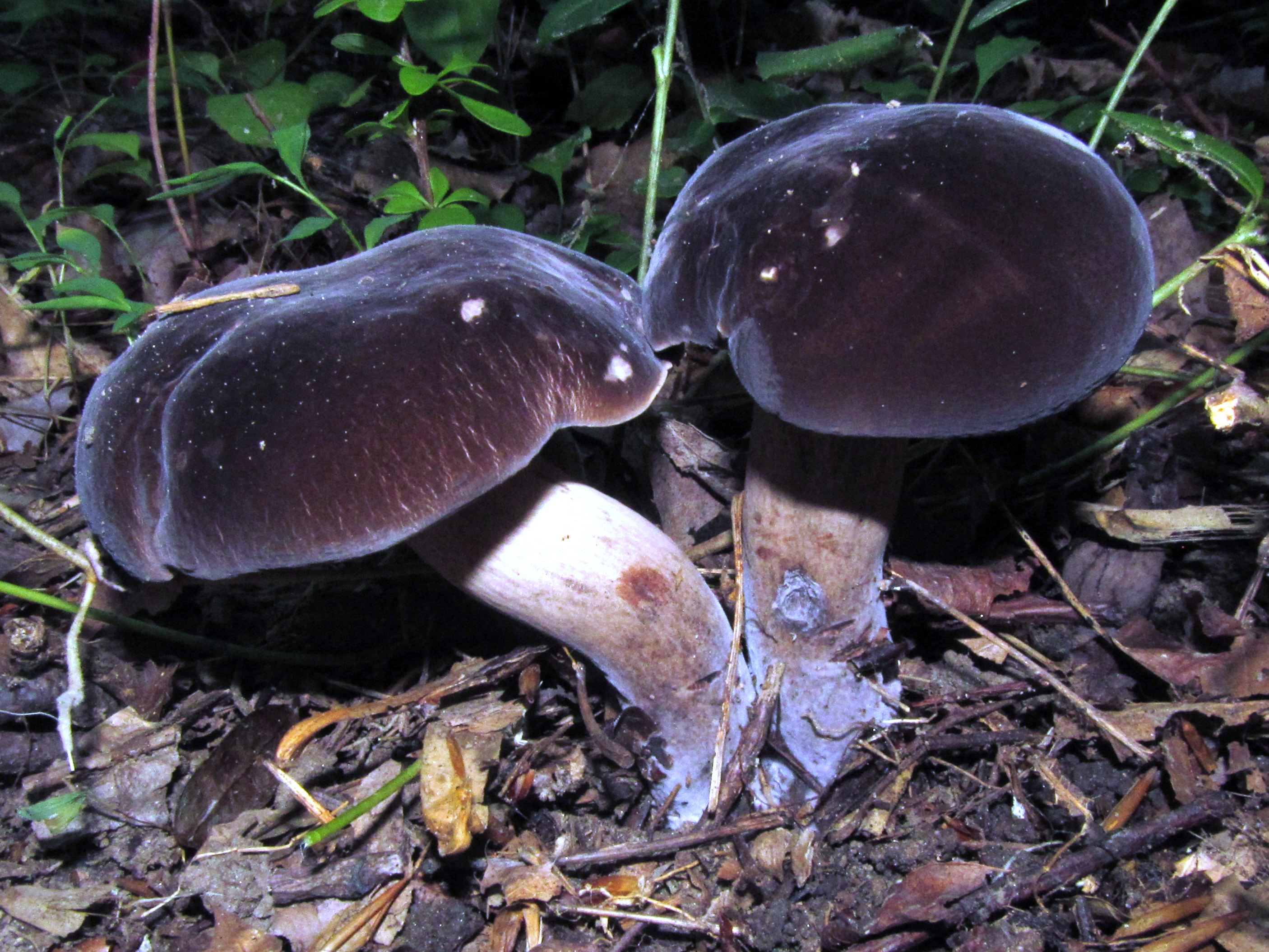 Fruit bodies of the bolete fungus Tylopilus alboater (Schwein.) Murrill. Specimens found in The Rock Creek Regional Park, Montgomery Co., Maryland, USA.